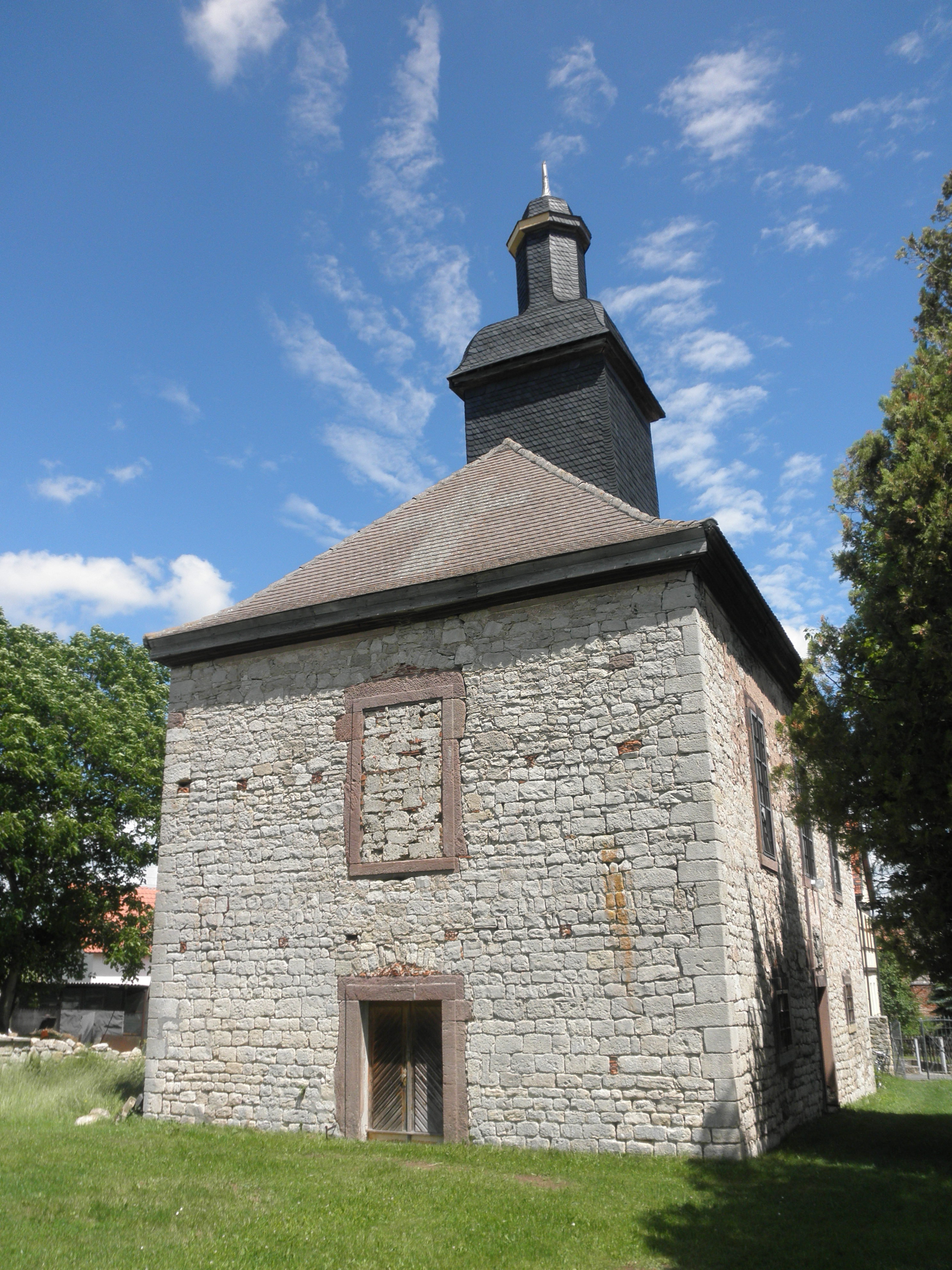 Church in Großkröbitz (Milda) in Thuringia